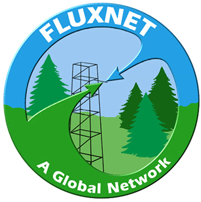 The logo of the Fluxnet project